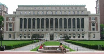 Photo of Columbia University at New York City (taken on Sunday, June 15, 2003 by djmutex), herewith licensed under GFDL.